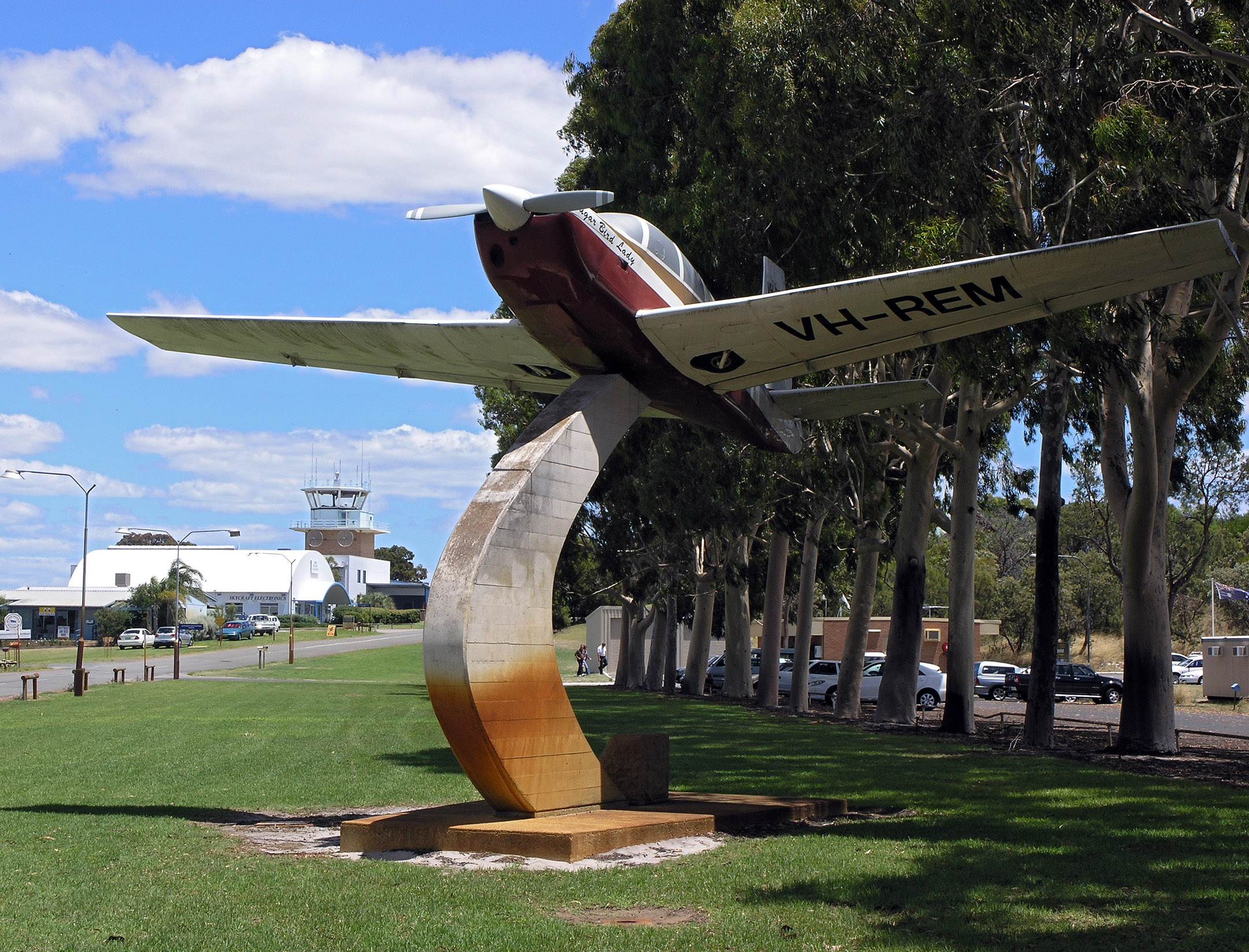 Memorial in Jandakot airport, perth WA to "The Sugar Bird Lady", Robin Miller Dicks (Mooney M20E) (VH-REM). Taken by me SeanMack.